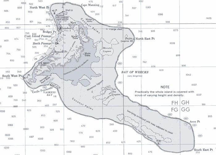 Map of Kiritimati (